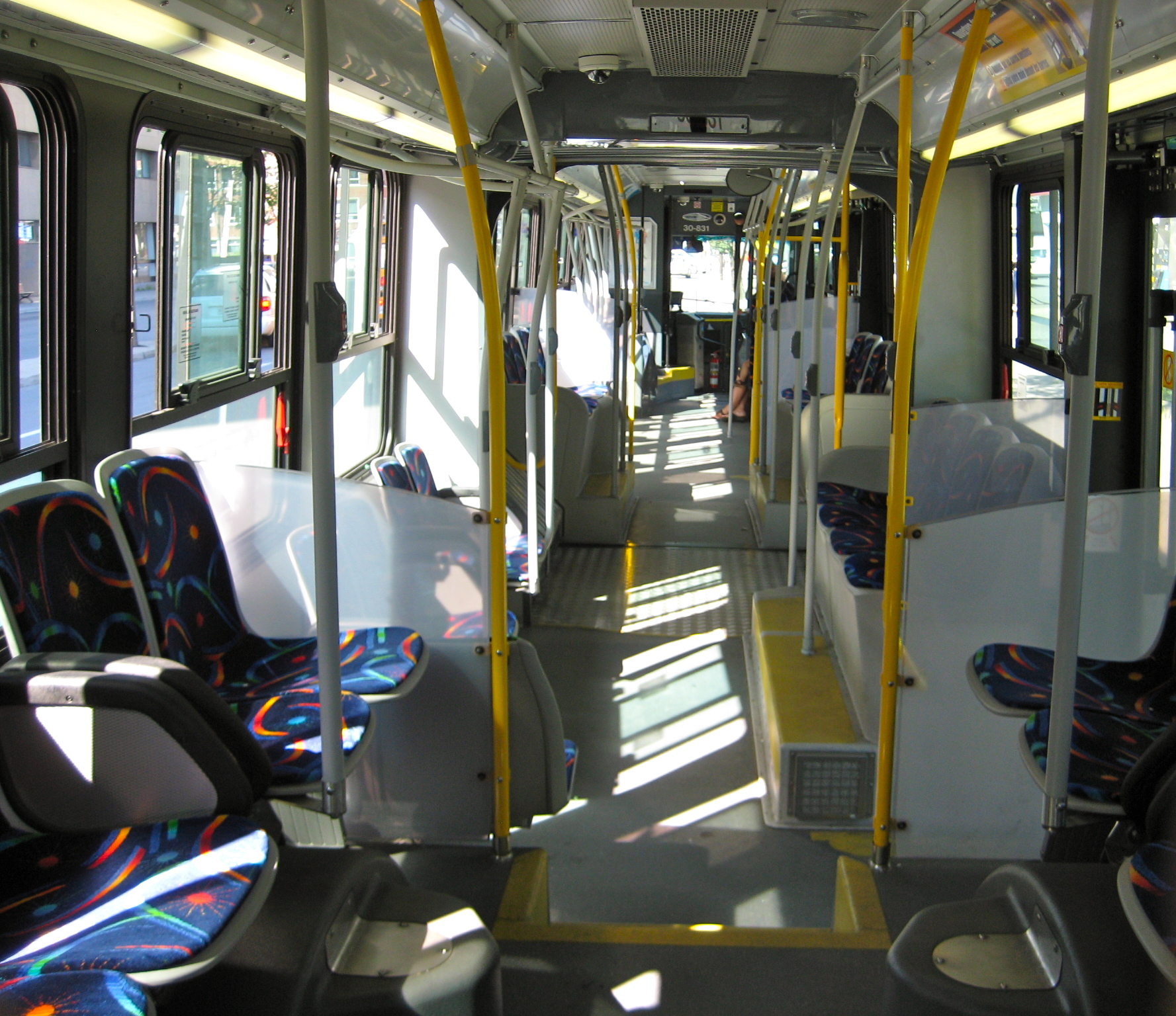 Inside a STM Articulated bus.